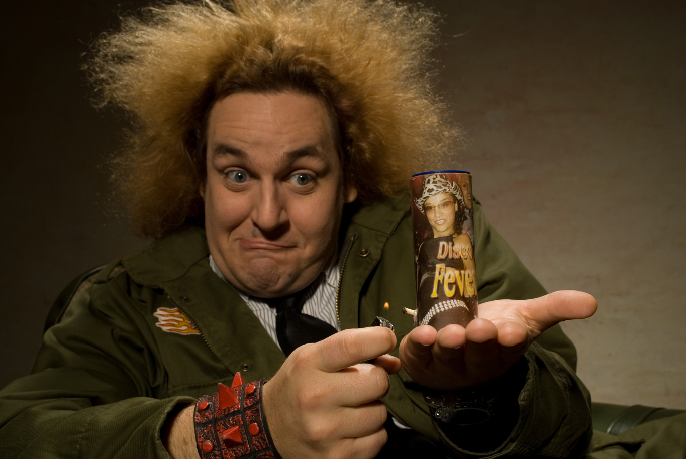 The comedian Konrad Stöckel at a personal meeting in Berlin/Germany.